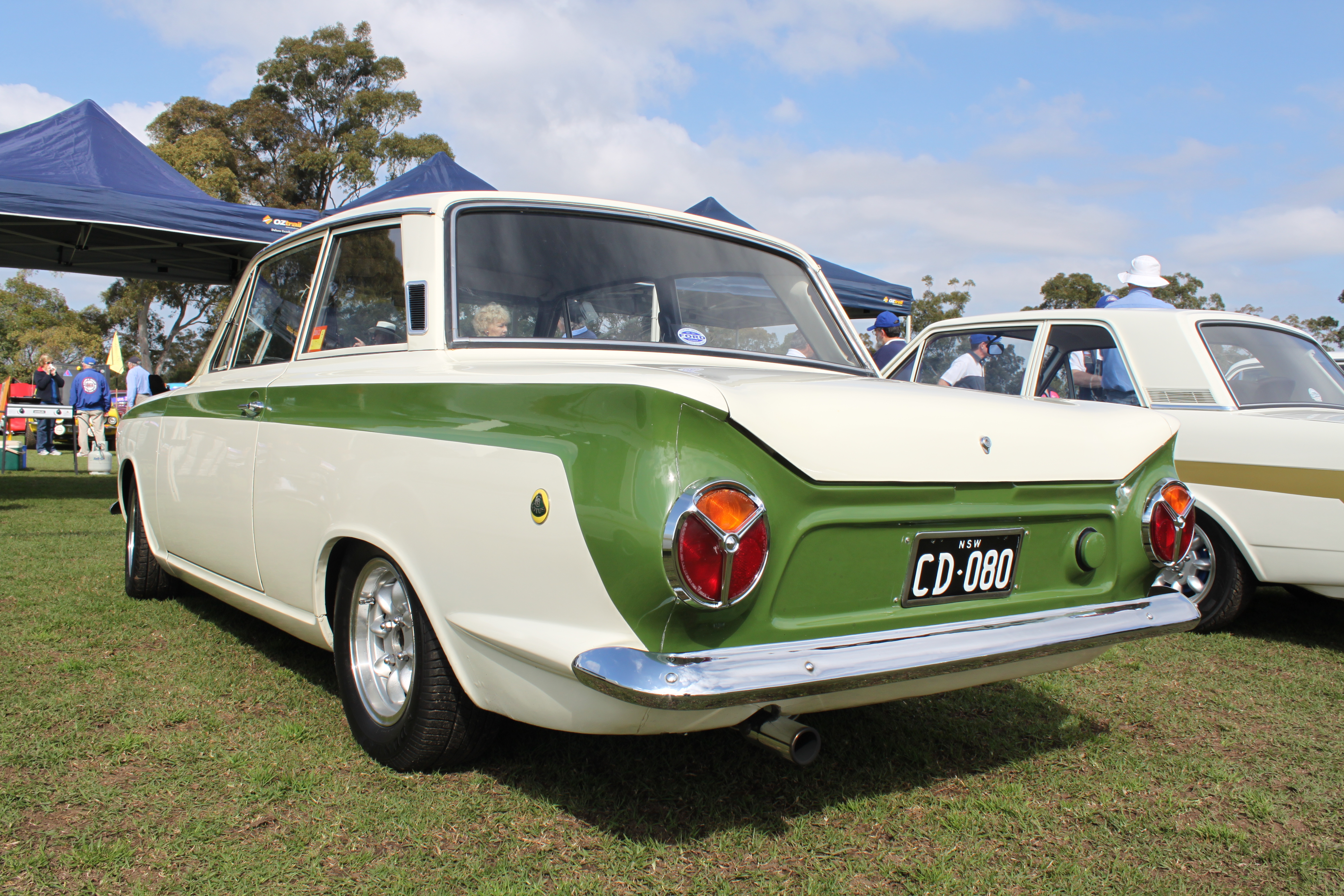 Ford Lotus Cortina Mk1